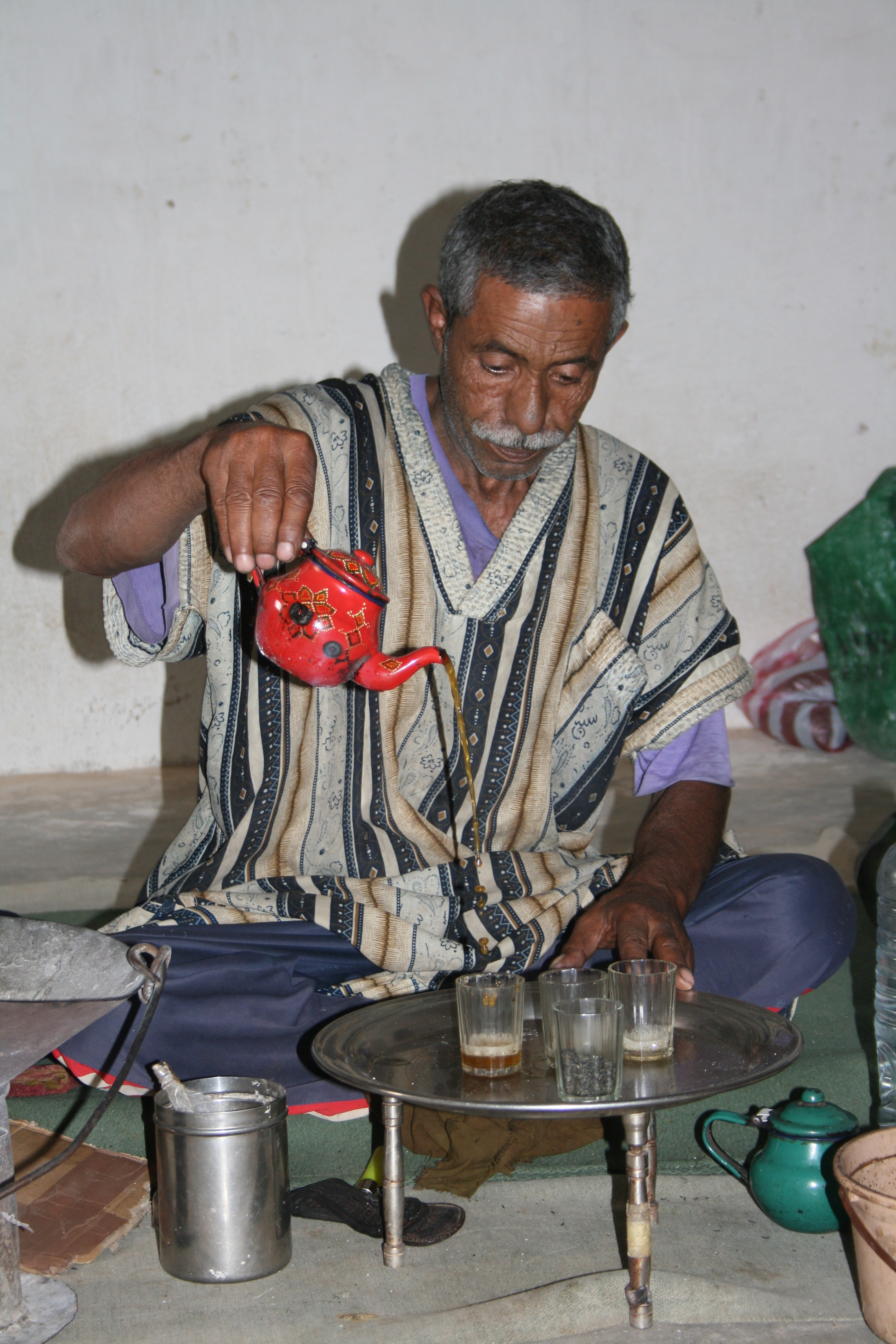 Typical Saharawi tea ceremony. Taken in Tifariti, Western Sahara.